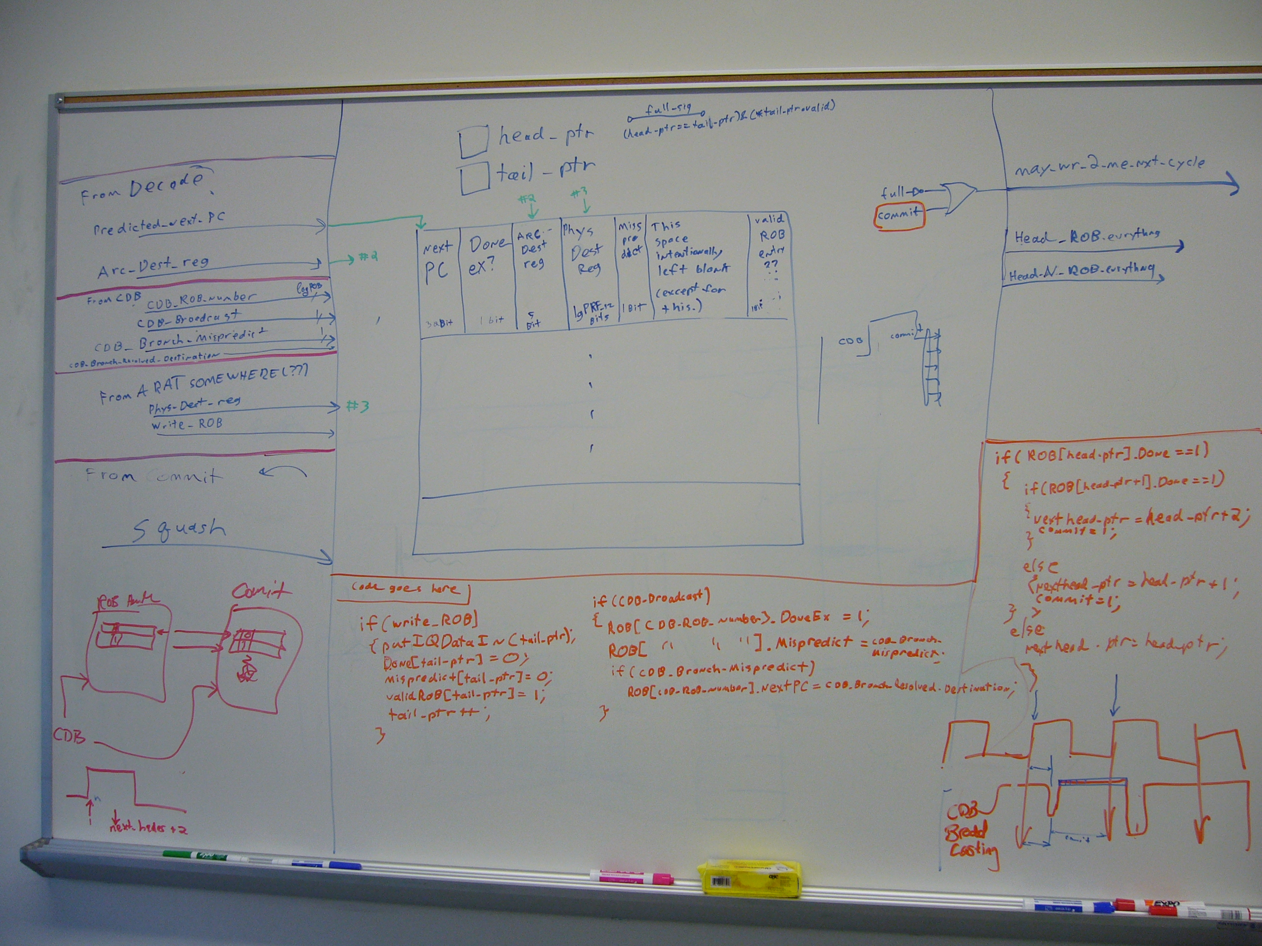 This is a photograph of the board from my 470 groups second design meeting